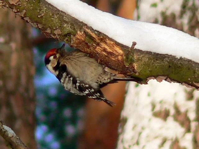 Lesser Spotted Woodpecker